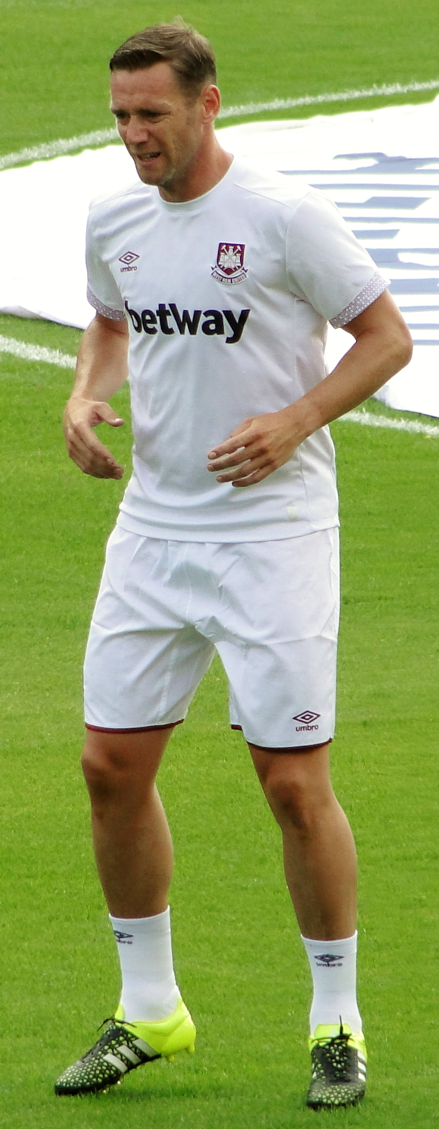 West Ham United player, Kevin Nolan warms-up before their pre-season friendly game against Peterborough United at London Road, Peterborough.